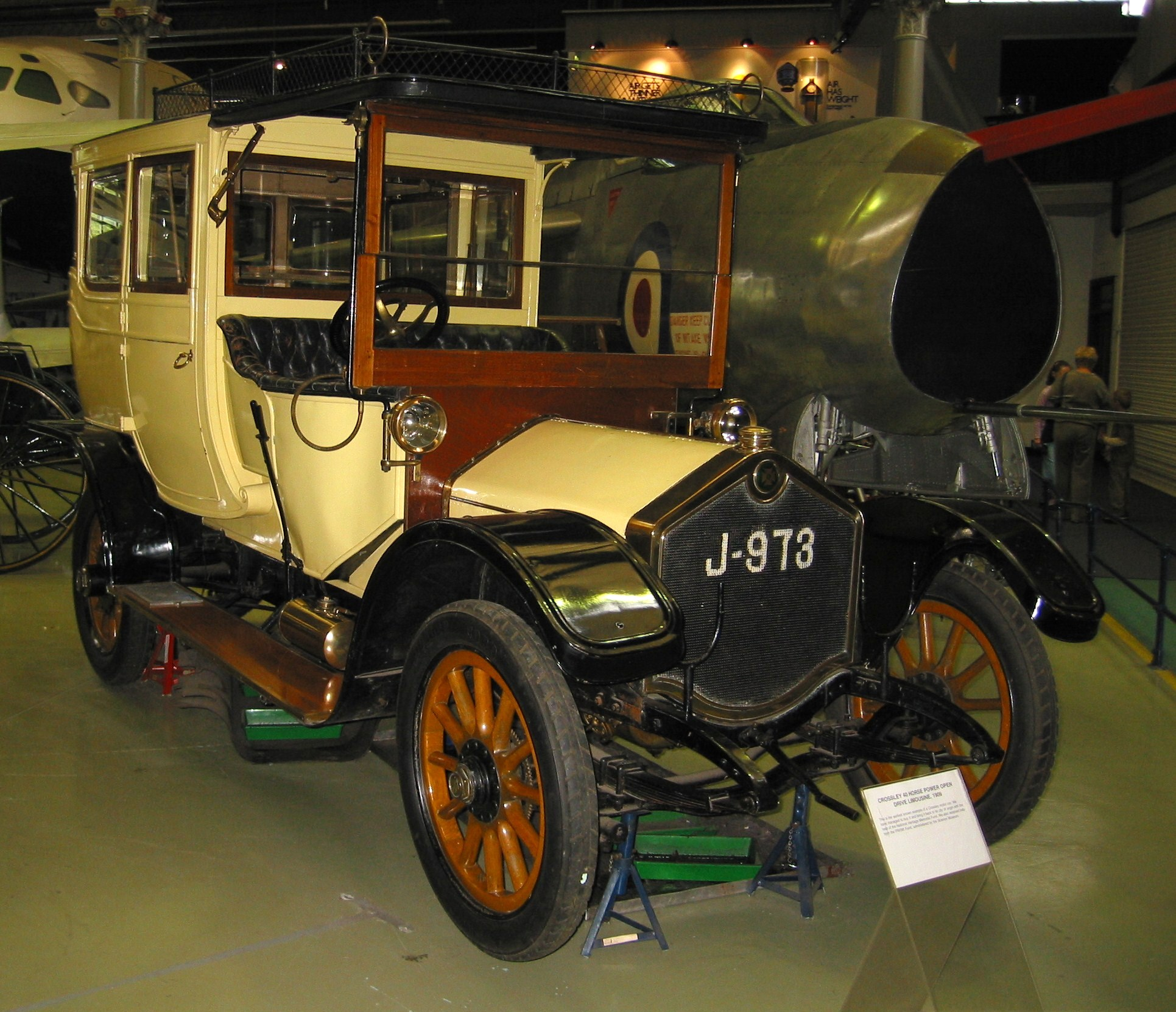 Crossley 1909 40HP (DVLA) manufactured 1909, 5296cc The 1909 40hp car now in the Manchester Museum of Science & Industry was recovered from Brome Hall, Eye, Suffolk in 1953. The coachbuilder is not known.source of info